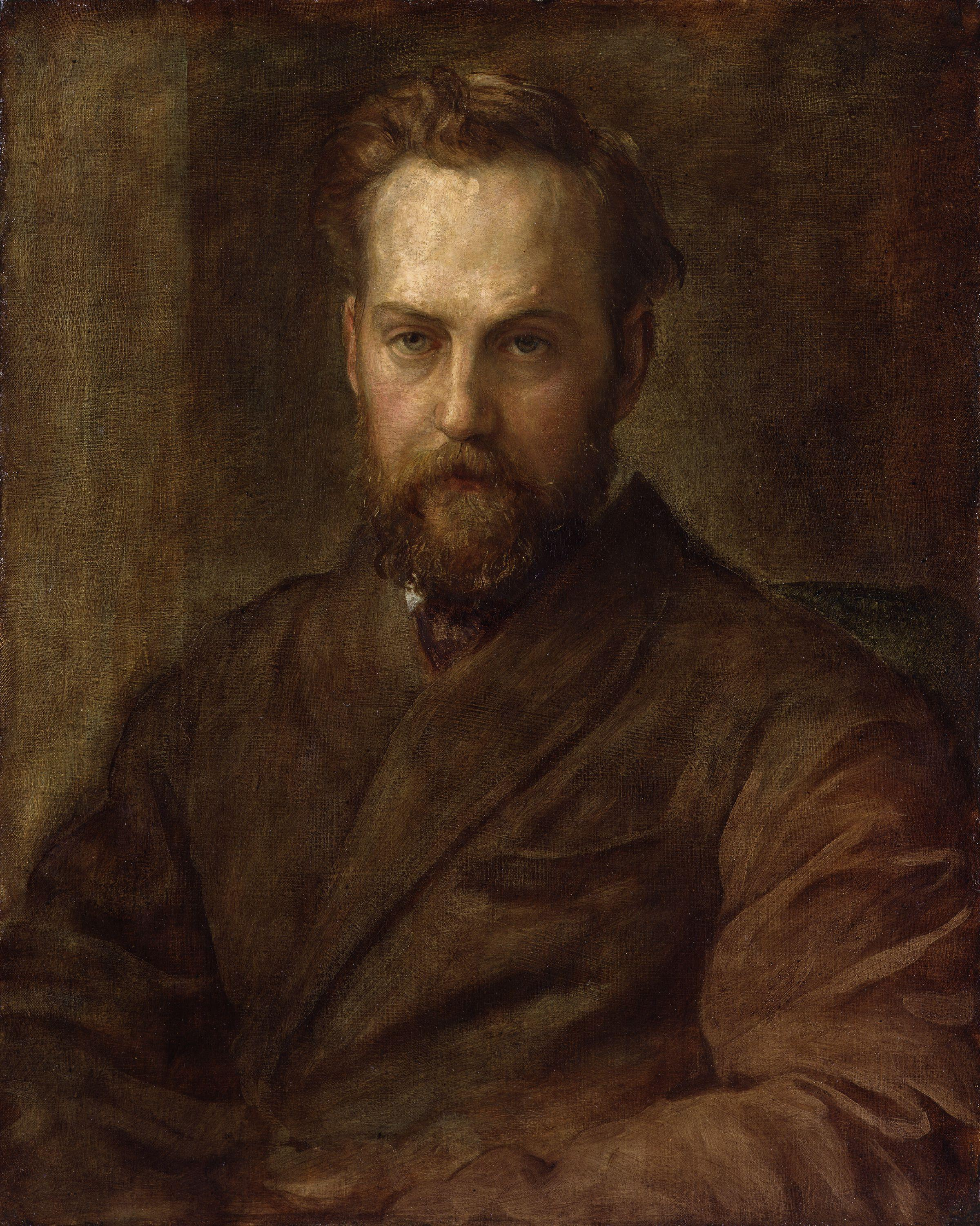 Sir Charles Wentworth Dilke, 2nd Bt, by George Frederic Watts (died 1904), given to the National Portrait Gallery, London in 1919. NB there are several notable Charles Dilkes and Charles Wentworth Dilkes through the 17th, 18th & 19th centuries. All images in this batch have been confirmed as author died before 1939 according to the official death date listed by the NPG.